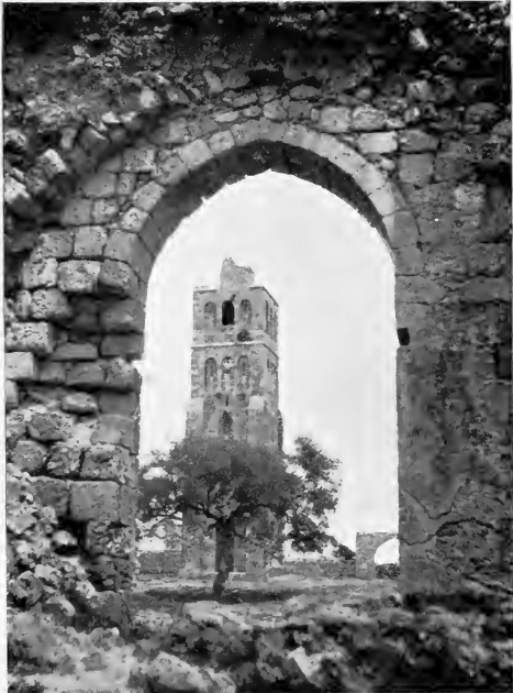 Ramla white tower 1913